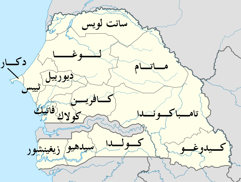 Location map of Senegal Equirectangular projection, N/S stretching 103 %. Geographic limits of the map: * N: 16.9° N * S: 12.0° N * W: 17.8° W * E: 11.1° W